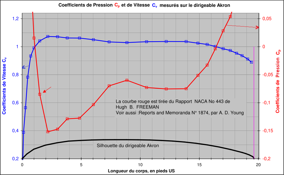 Pressure and Velocity Coefficients on the US Akron Airship, based on Freeman measurements on a 1/40 scale model, and according to Young. The shape of the airship is drawn in black.